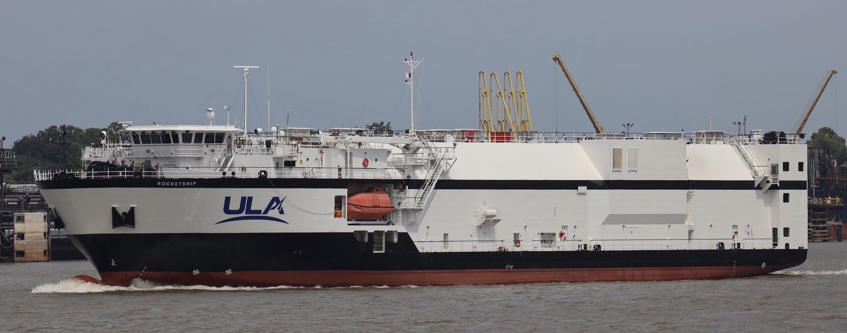 Rocketship on her maiden voyage after being renamed in September 2019